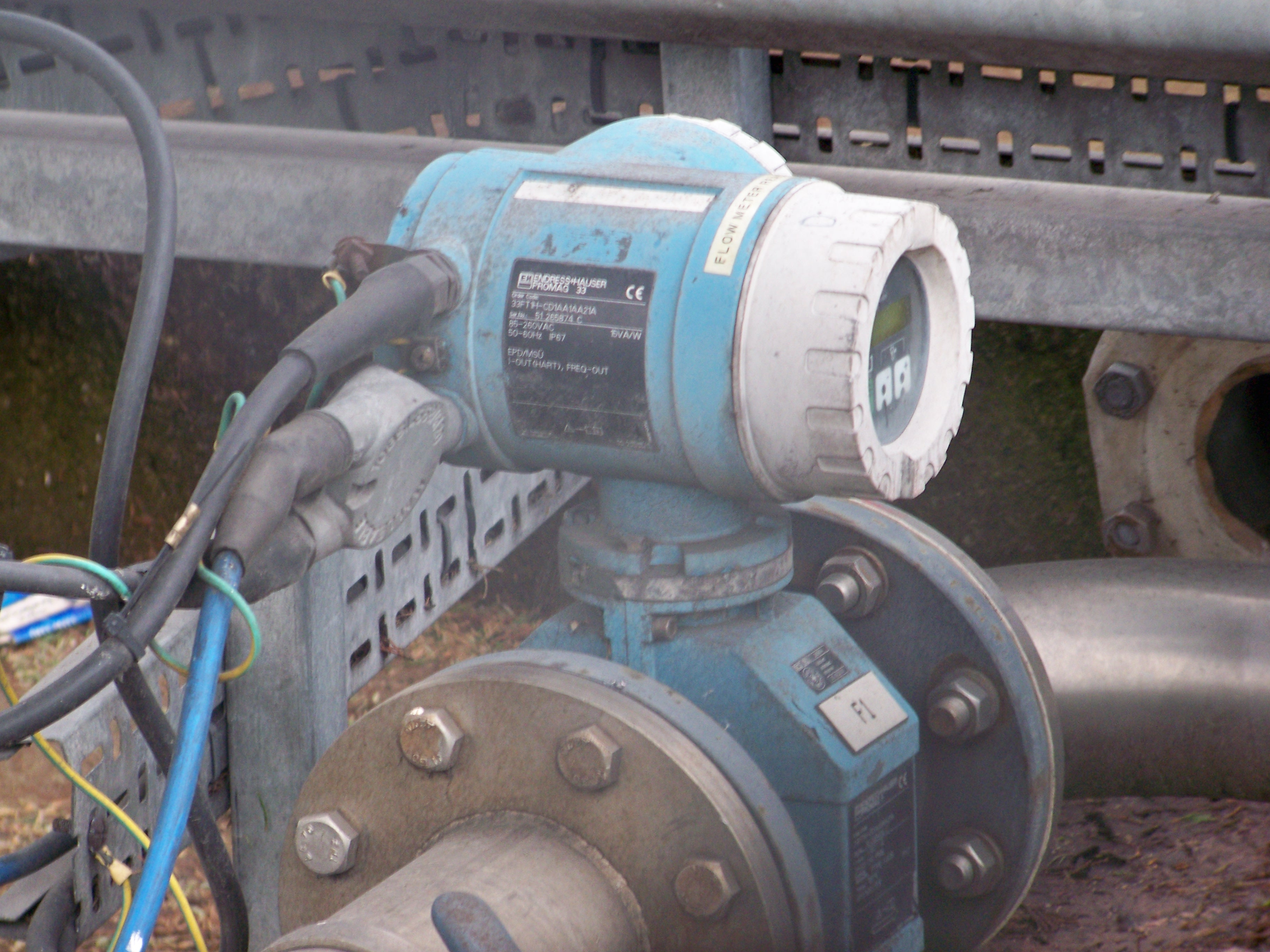 A magnetic flow meter at the Tetley's brewery in Leeds, West Yorkshire, as seen from Crown Point Road. The meter is manufactured by 'Endress + Hauser' and is tagged 'F1' ('F' denoting flow). The meter used HART Protocol. Taken on the afternoon of Monday the 10th of May 2010.